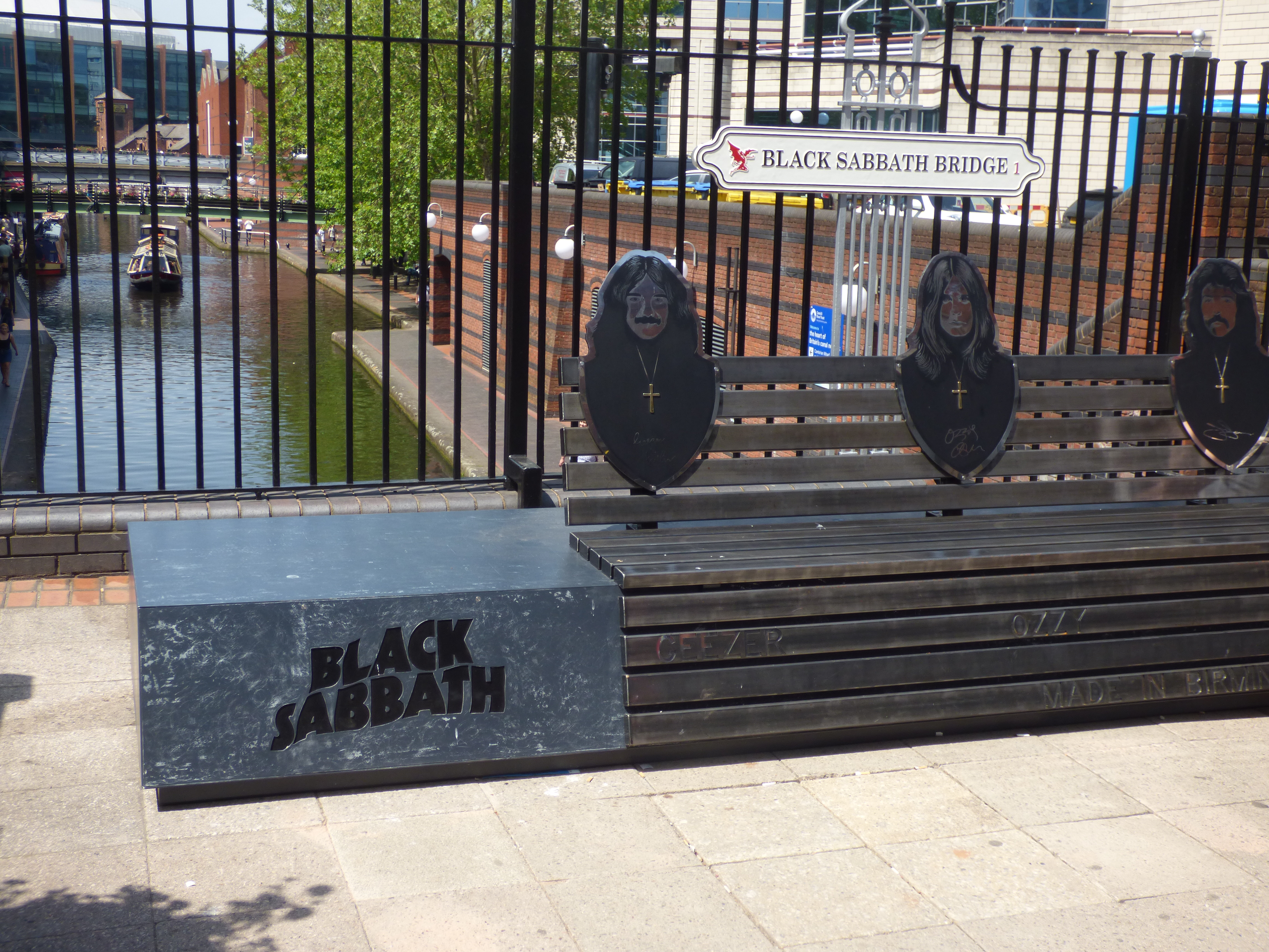 Black Sabbath Bench on the Black Sabbath Bench, Broad Street, Birmingham. Was unveiled by Geezer Butler and Tony Iommi. Ozzy Osbourne and Bill Ward were unable to attend. Saw it myself a few days later.